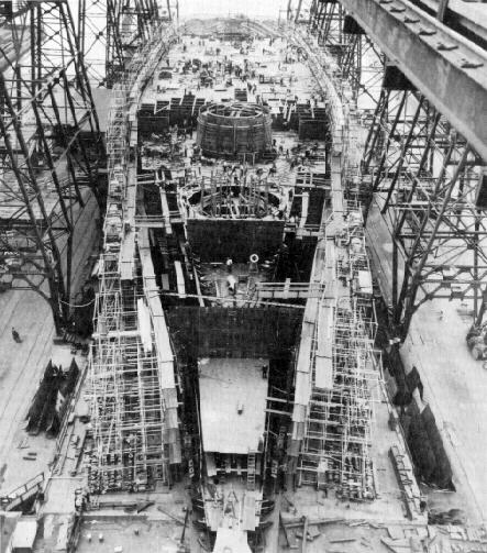 Washington (BB-56) under construction at the Philadelphia Naval Ship Yard.